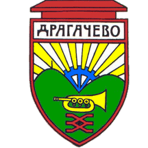 Coat of Arms of the city and municipality of Lučani, Serbia